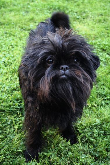 Imrun`s Boris Jeltsin - Affenpinscher